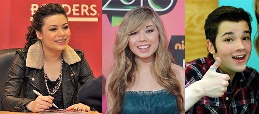 Miranda Cosgrove at Columbus Circle Borders magazine signing featuring her on the cover of Seventeen.